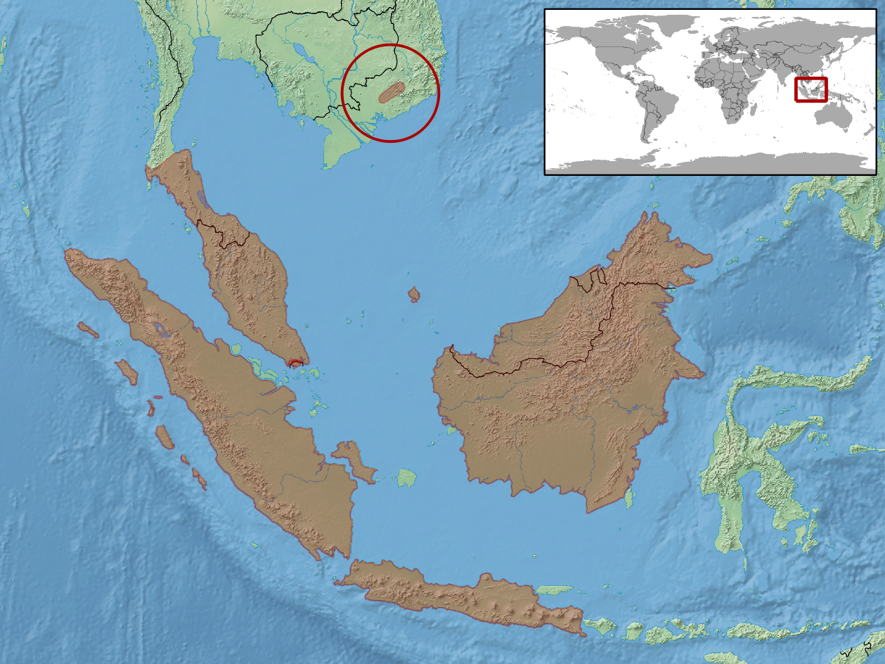 geographic distribution of Boiga jaspidea (Native: Indonesia (Jawa, Kalimantan, Sumatera); Malaysia (Peninsular Malaysia, Sabah, Sarawak); Singapore; Thailand; Viet Nam)